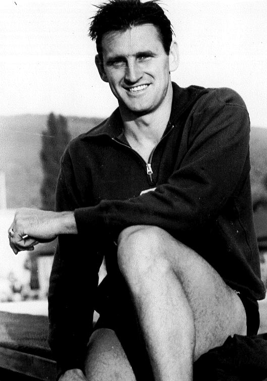 Walter Ris. Photo taken at home.